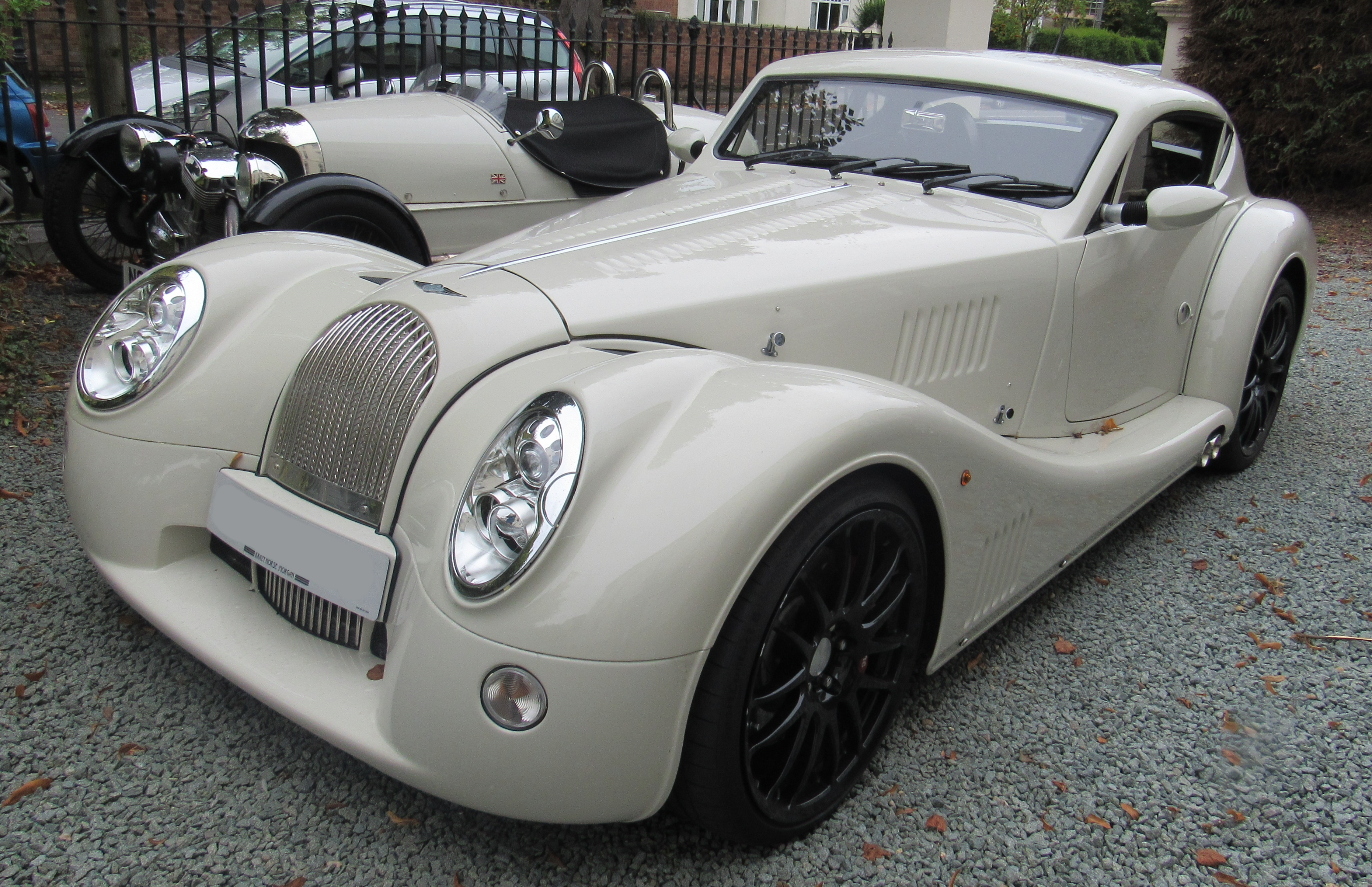 2015 Morgan Aero Supersports Automatic 4.8 Front Alongside a Morgan Three-wheeler Taken in Leamington Spa